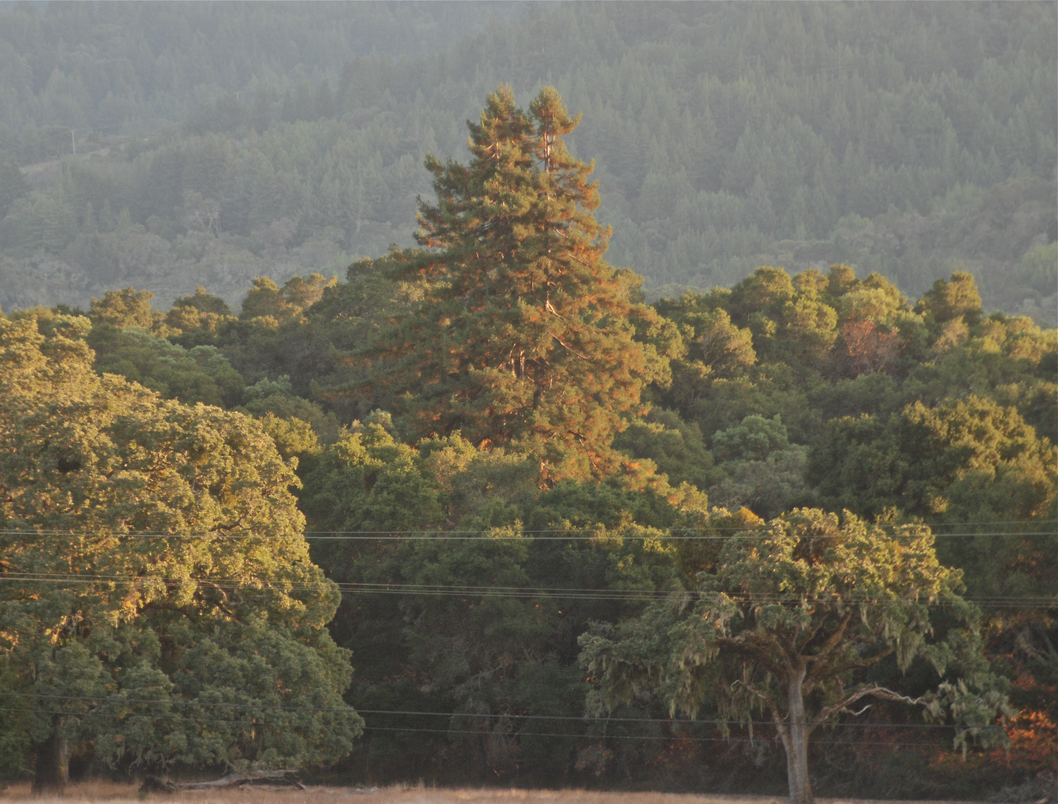 Coast redwoods on Laguna Creek at Filoli — in San Mateo County, San Francisco Bay Area, California.